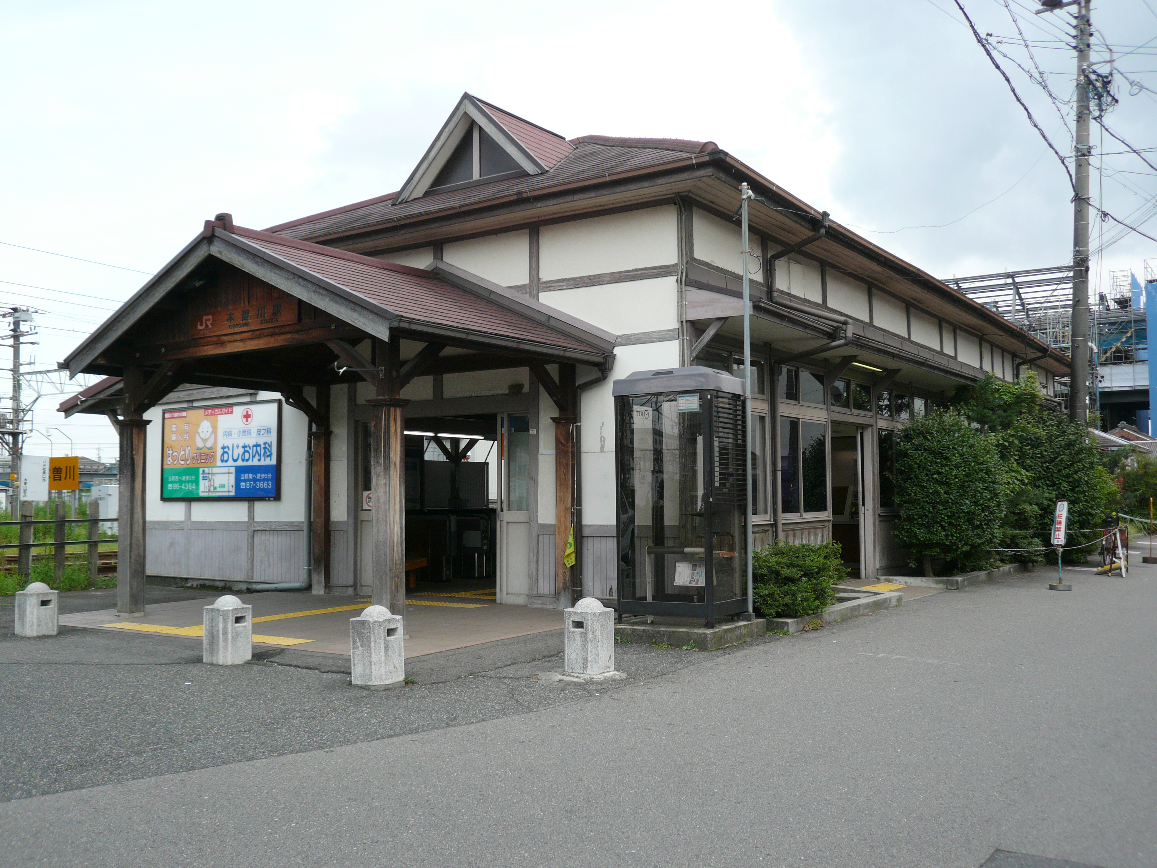 JR Central of Kisogawa Station.